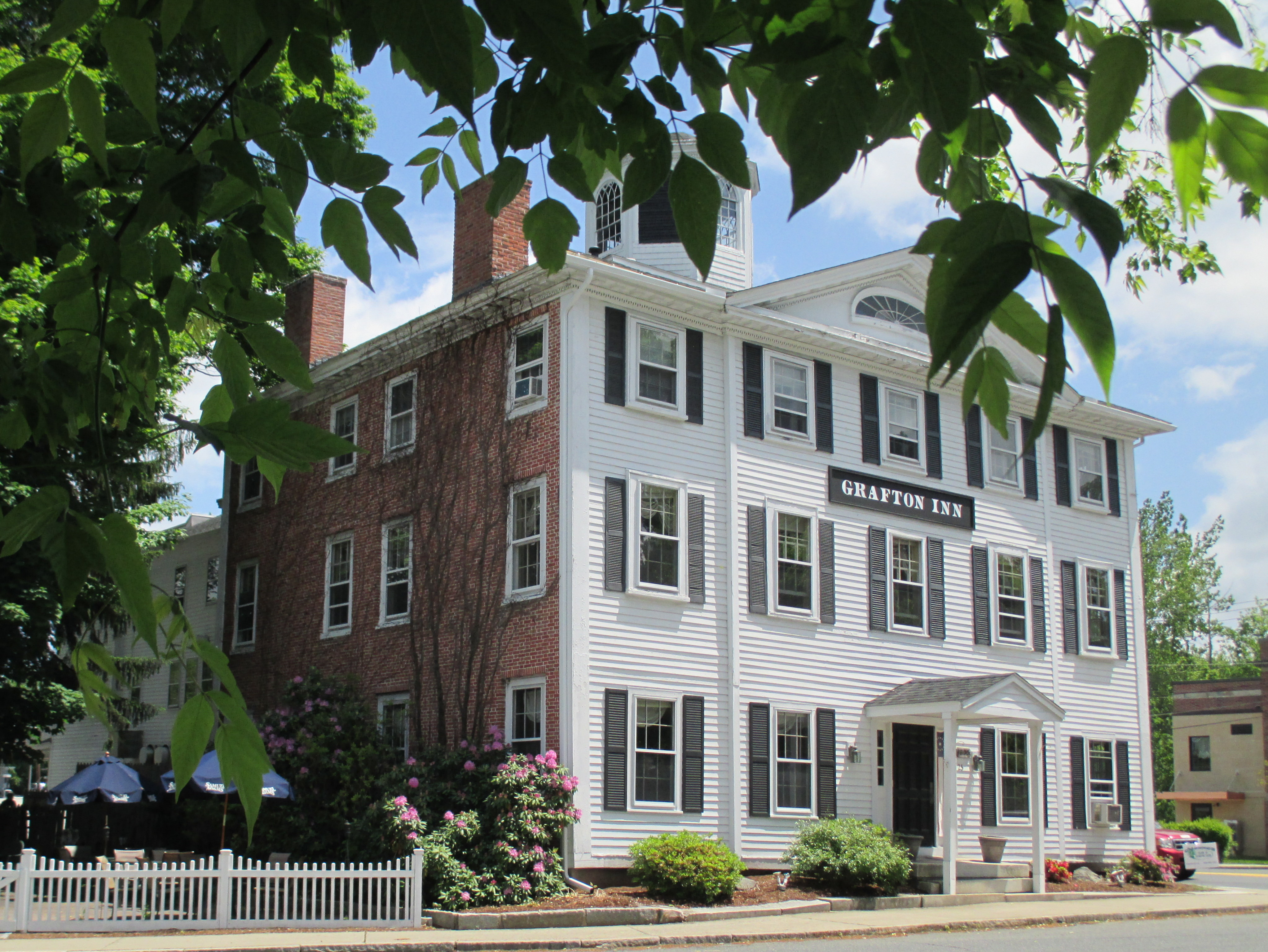 The three story wood and brick inn was built in 1805 by Samuel Wood. The building was significantly enlarged between 1865-75, doubling its size. The inn was listed on the National Register of Historic Places in 1980, and was included in the Grafton Common Historic District in 1988. Grafton Inn 25 Grafton Common Grafton, Massachusetts